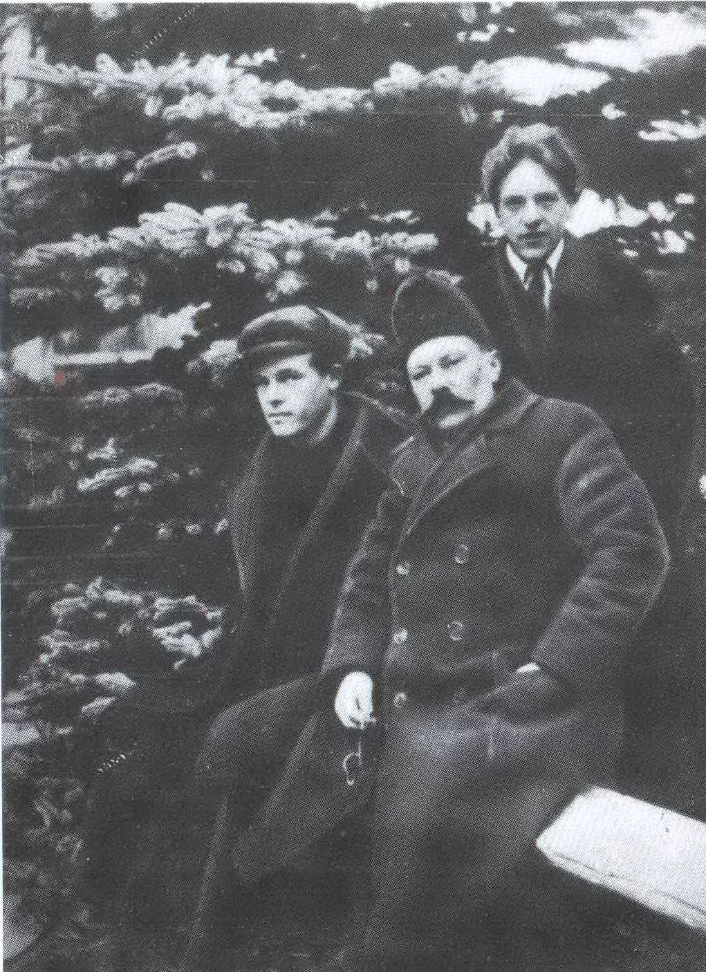 Leonid Martynov, Sergey Markov, Nikolay feoktistov. In the late twenties